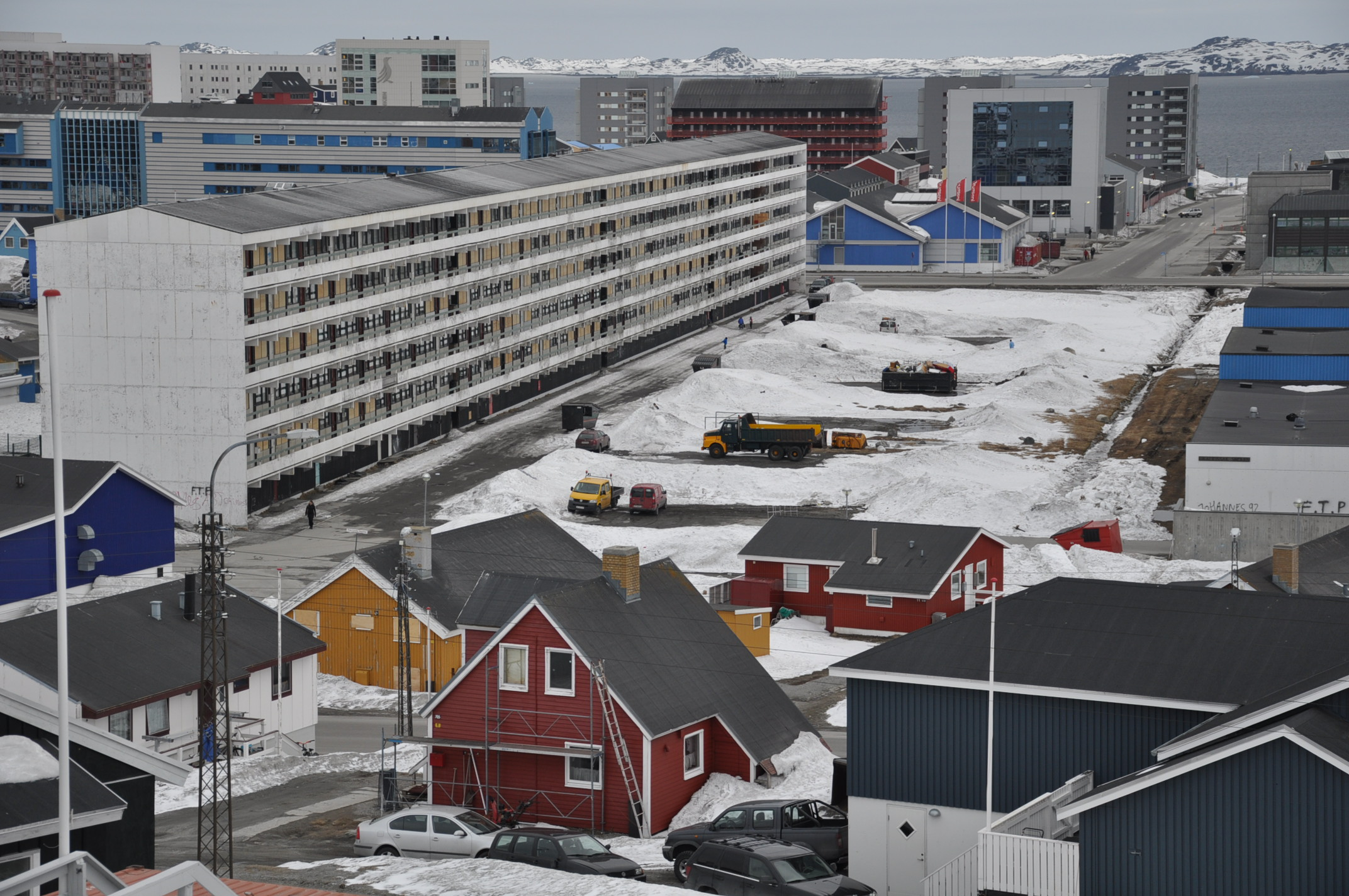 Town centre of Nuuk with Blok P, the largest apartment building in town (and in all of Greenland).